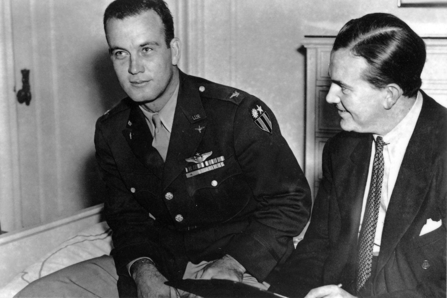 Colonel Clinton D. "Casey" Vincent meets with cartoonist Milton Caniff in 1943. Vincent served as the prototype for two Caniff characters: Colonel Vince Casey, and later, General P.G. "Shanty" Town.